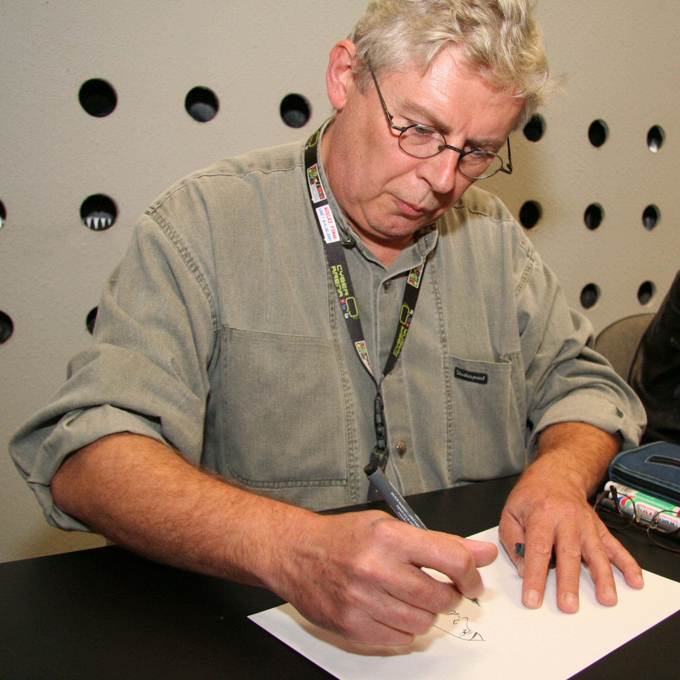 Mark van Oppen at International Festival of Comics in Łódź, 3rd October 2009.